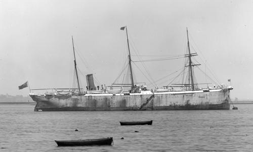 Reproduction ID: G1146 Maker: Unknown Date: 1901